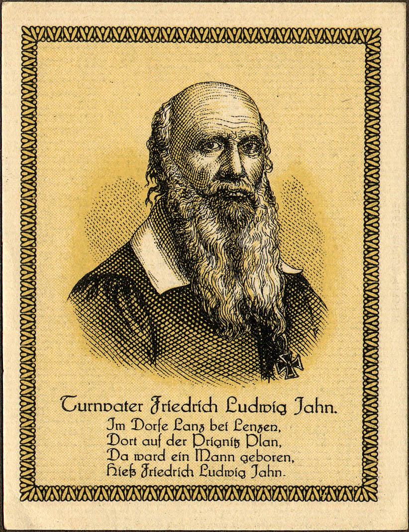 75 Pfennig Notgeld (Emergency Money) of the German town Lenzen (back). The corresponding front is File:Notgeld-Lenzen-75-Front.jpg.